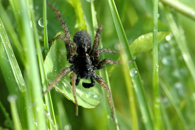 male Pardosa amentata from Commanster, Belgian High Ardennes .